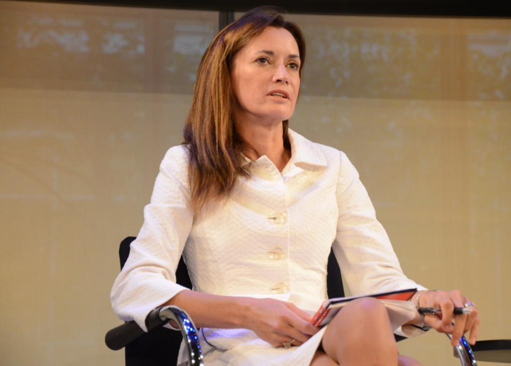 Blythe Masters speaking at the blockchain conference ConsenSys 2015